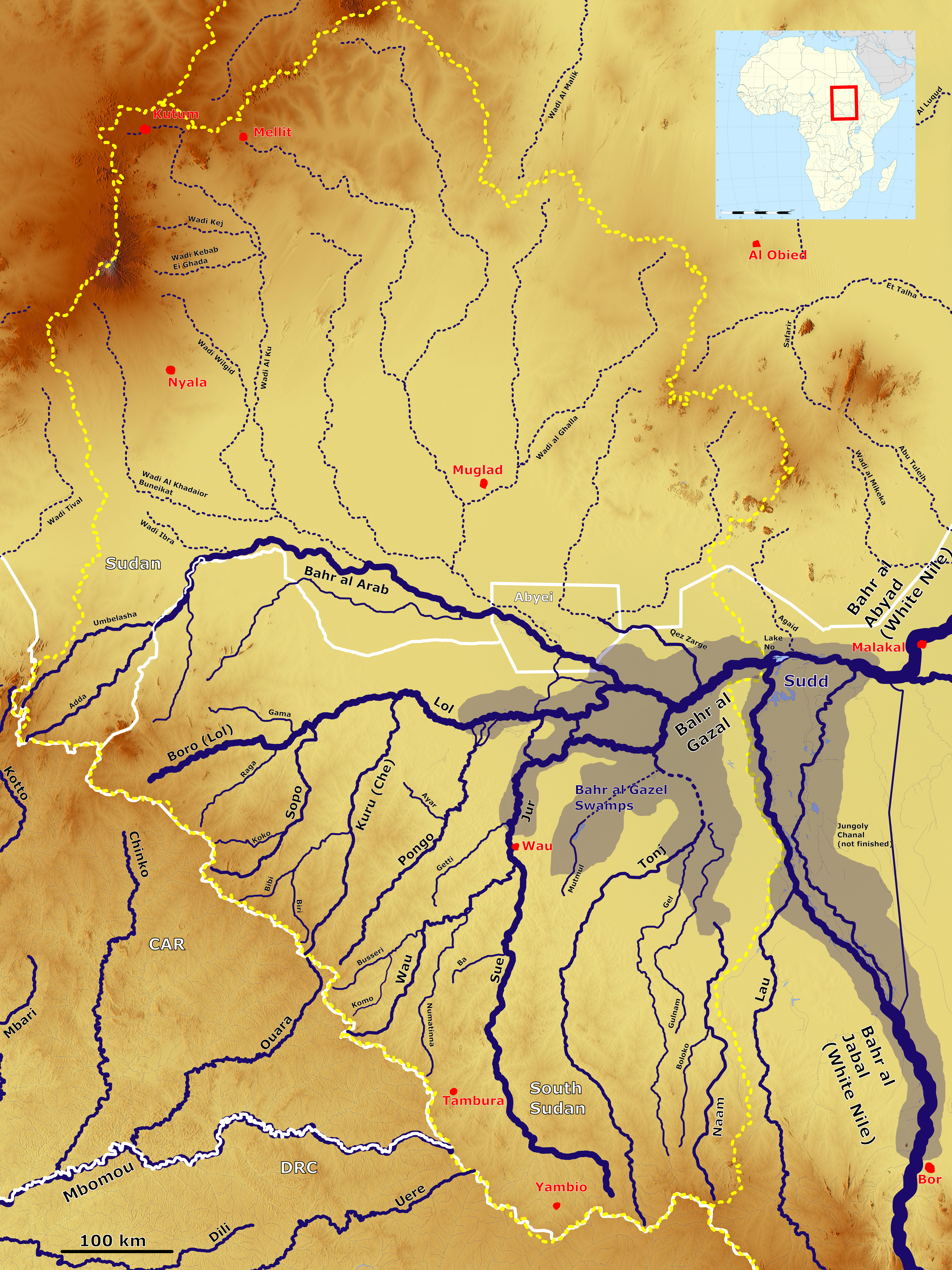 The Bahr al Gazal Basin OSM